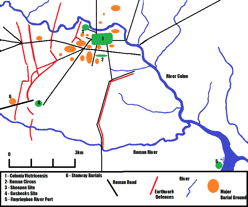 Map of Roman Colonia Victricensis (modern Colchester) with surrounding sites